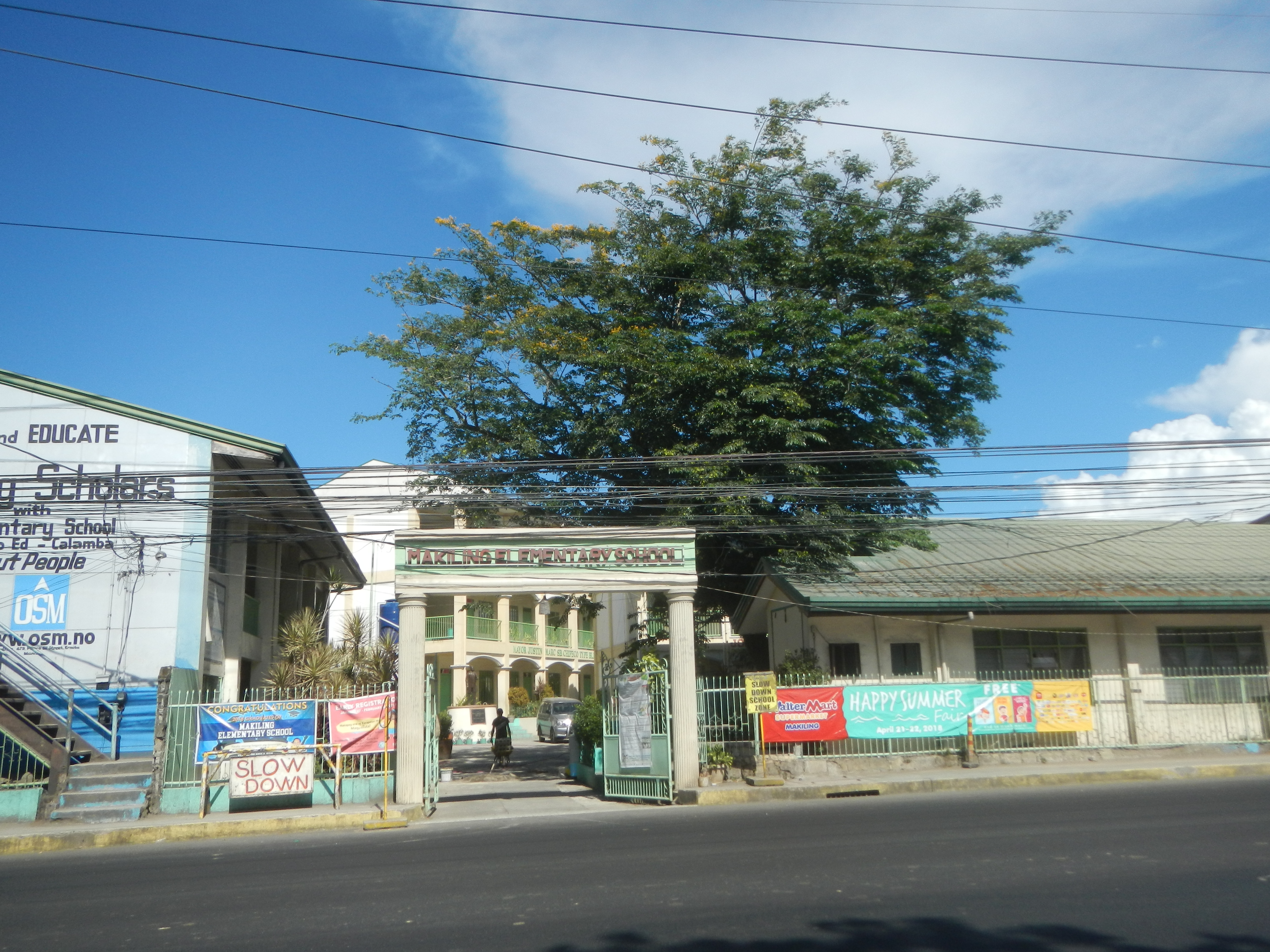 San Isidro Labrador Parish Church (Makiling, Calamba City) Makiling, Calamba Elementary School along Maharlika Highway (Calamba City section) Pan-Philippine Highway; in Makiling 14°9'8"N 121°8'17"E Barangays Makiling, Calamba Milagrosa Turbina, Calamba Poblacion I, Calamba Poblacion II, III, IV, VI and VII, Calamba and Poblacion V, Calamba Calamba, Laguna Poblacion 14°12'32"N 121°9'46"E Calamba Poblacion (Note: Judge Florentino Floro, the owner, to repeat, Donor Florentino Floro of all these photos hereby donate gratuitously, freely and unconditionally Judge Floro all these photos to and for Wikimedia Commons, exclusively, for public use of the public domain, and again without any condition whatsoever).